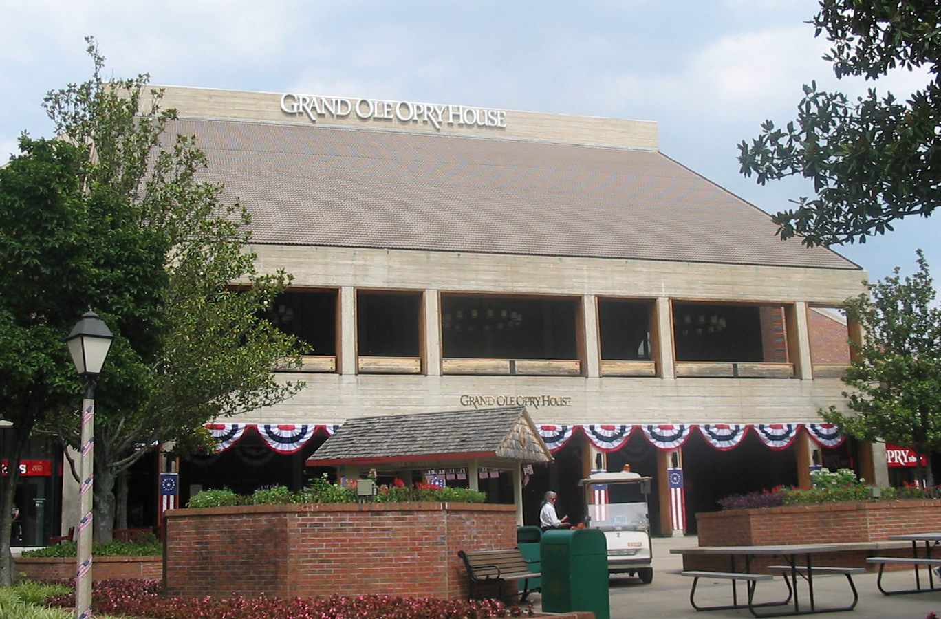 Grand Ole Opry House, in Nashville, TN. Taken early July, 2005.